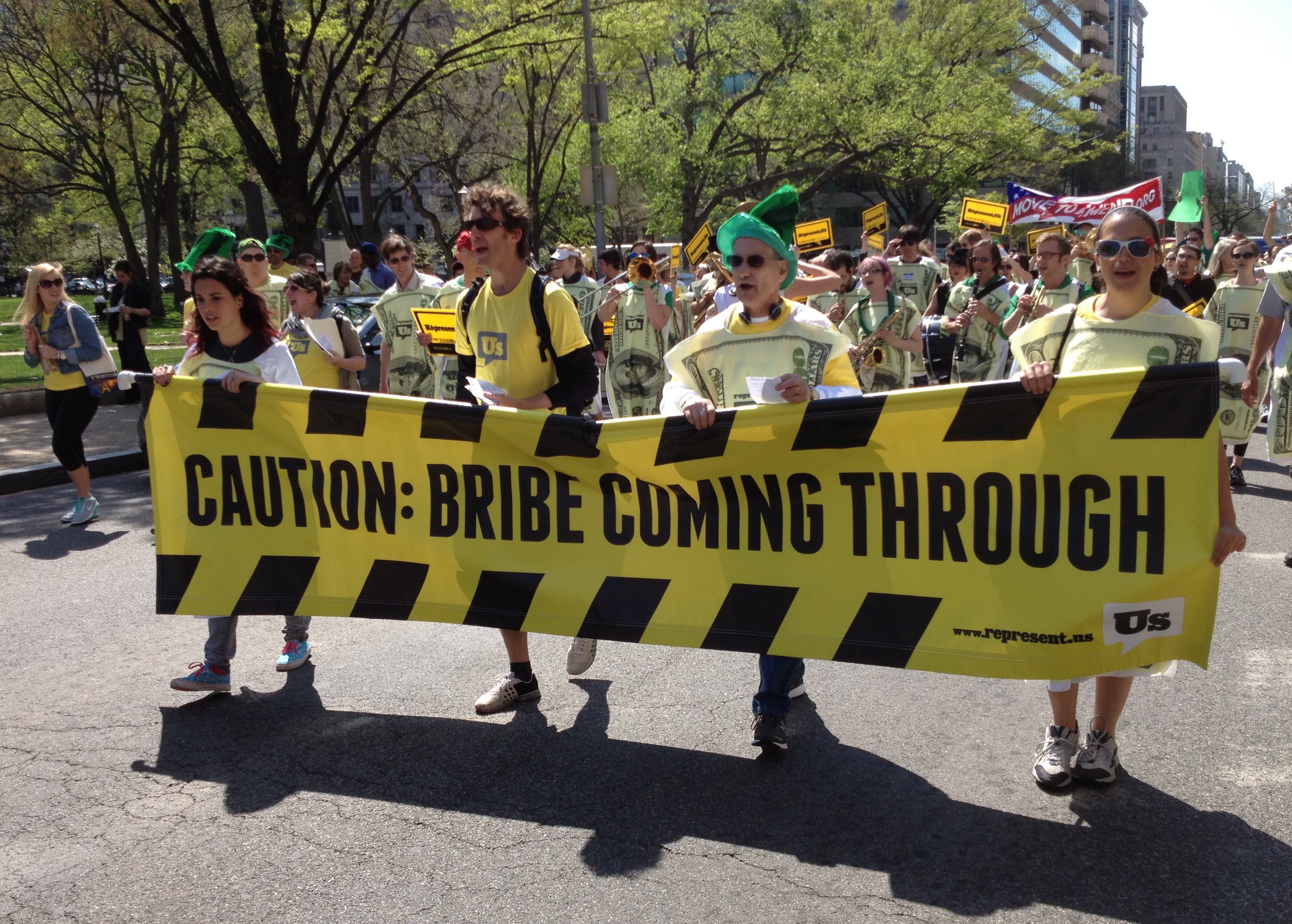 "Caution Bribe Coming Through." March in Washington, DC, April 13, 2013, by Represent.Us